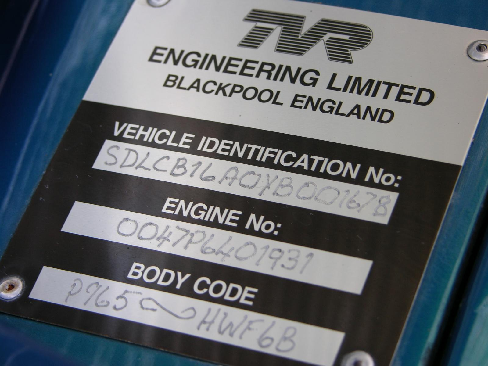 TVR Cerbera Speed Six